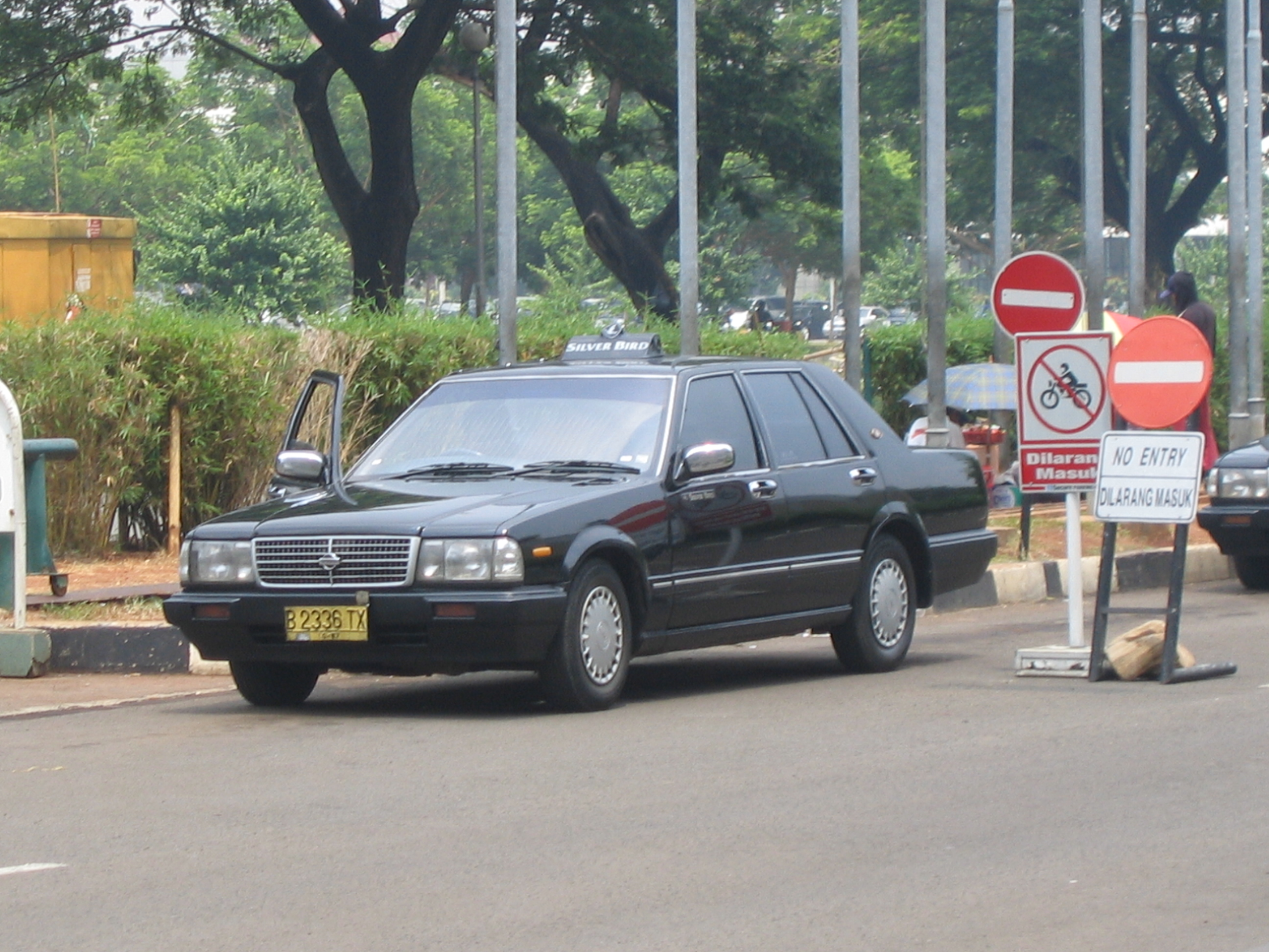 Nissan Cedric Diesel (Y31) "Silver Bird" Taxi in Jakarta, Indonesia